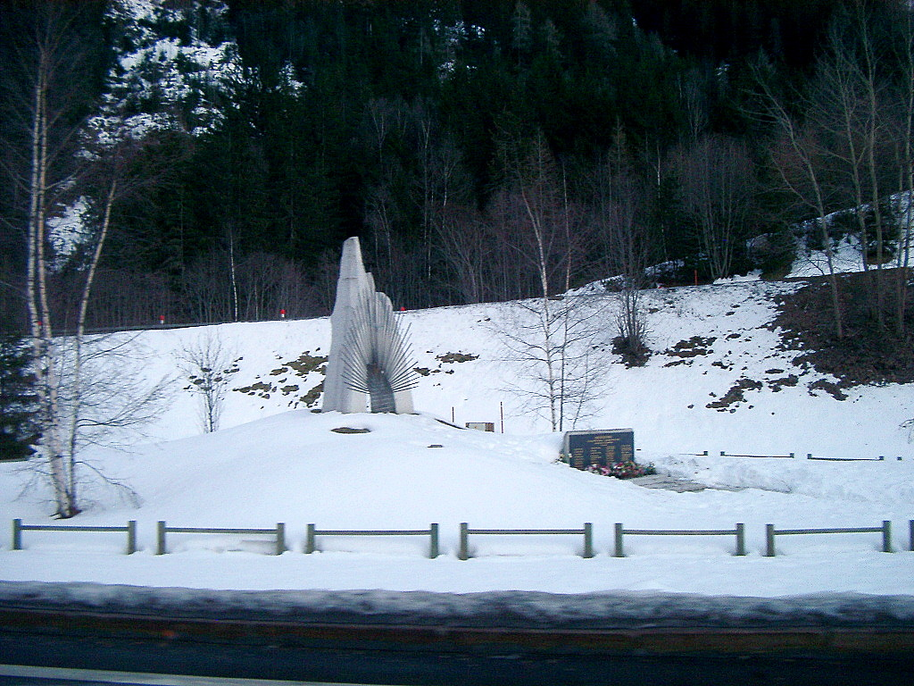 A commemorative plaque on the French side of the Mont Blanc Tunnel following the 1999 fire